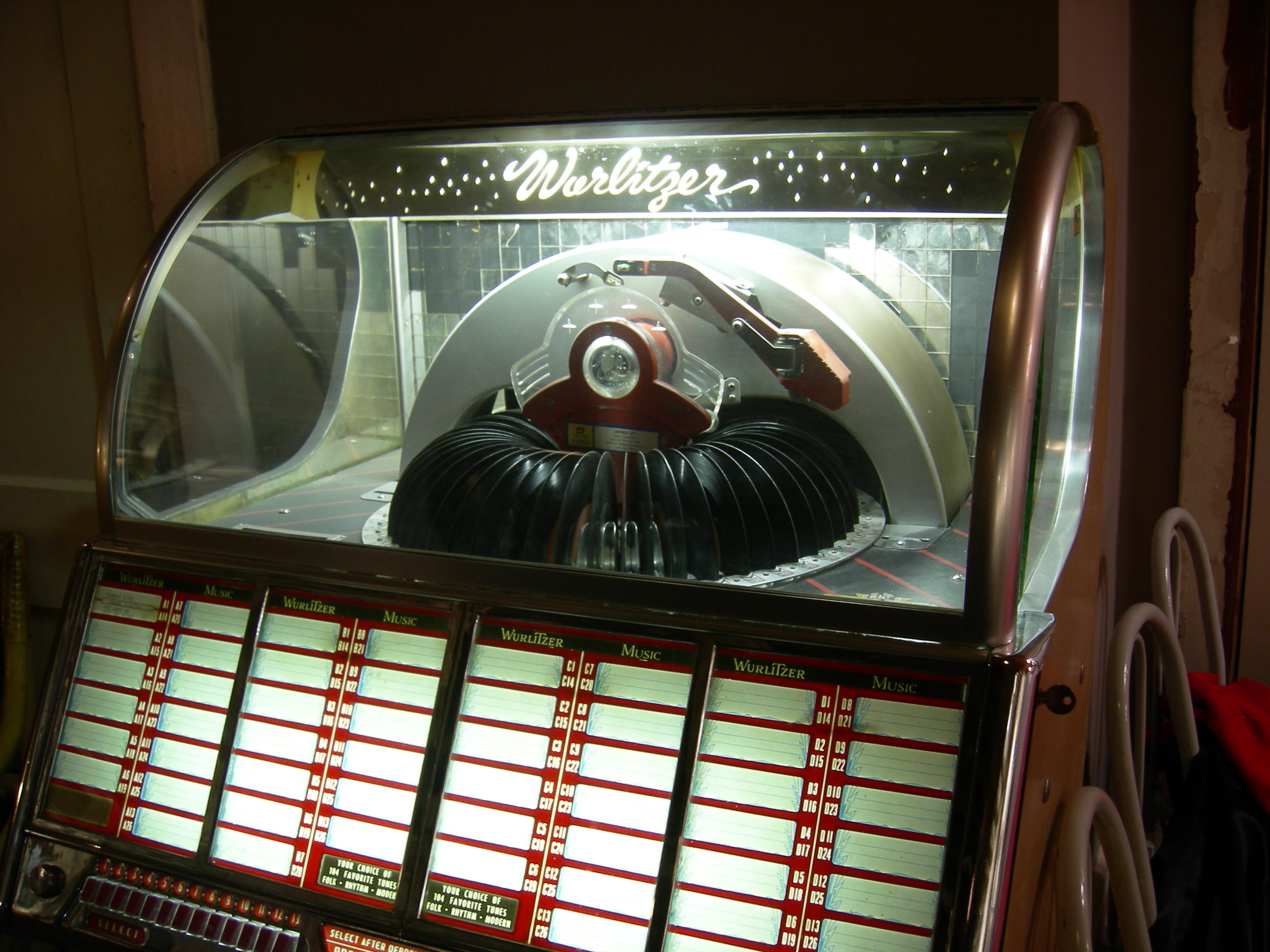 Wurlitzer jukebox, photographed at "The Stables" behind Full Throttle Bottles on Airport Way, Georgetown, Seattle, Washington. "The Stables" is actually not part of Full Throttle Bottles. It is a separate quasi-bar and event space, named for a long-gone nearby stable for The Meadows when the latter was a horse racing track. Apparently, The Stables is not the historical stable building, which was about 30-40 meters south. The present building was actually the bakehouse for the Fickeisen family's Georgetown Bakery in what is now (2020) the Full Throttle Bottles location.